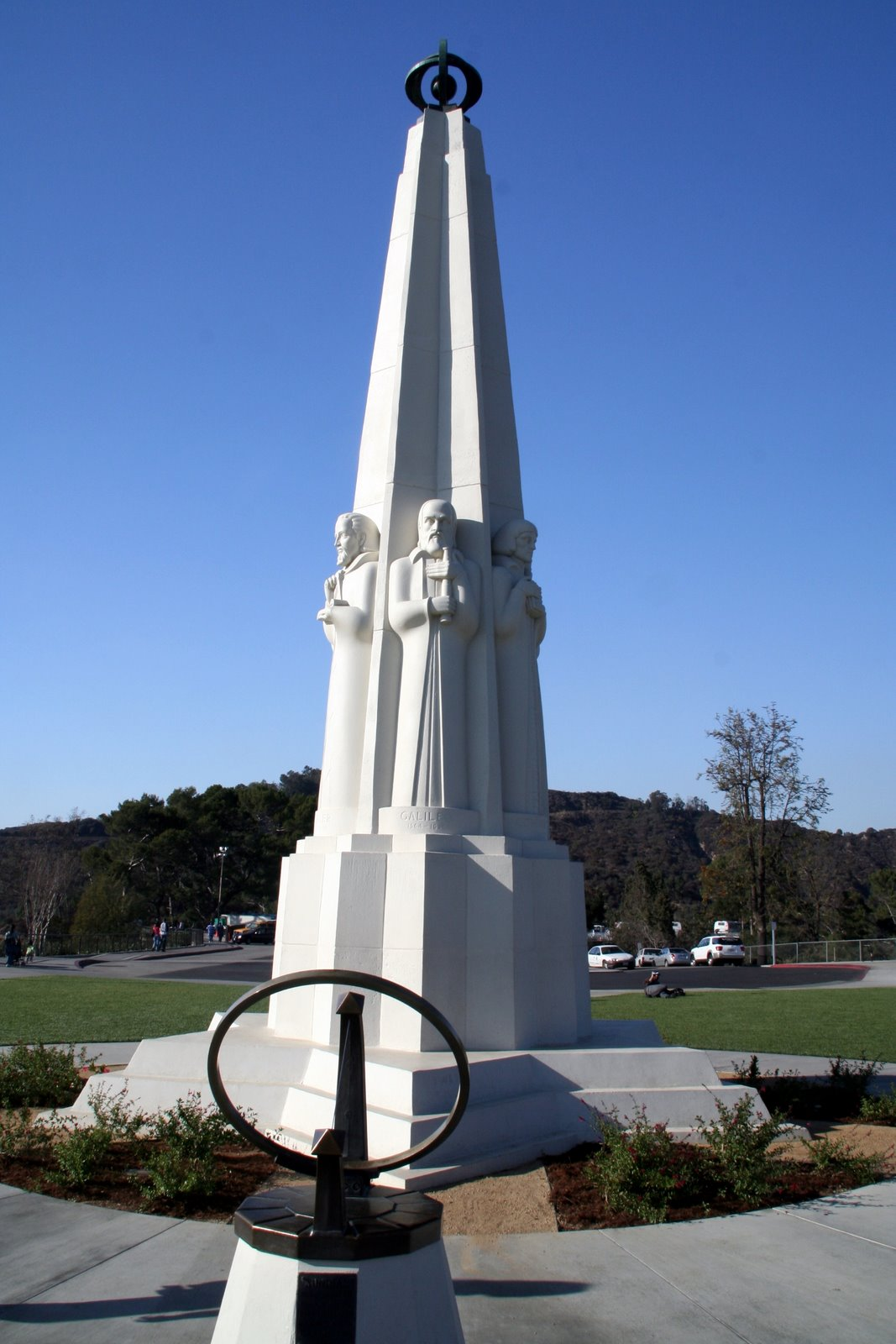 Astronomers Monument in front of north door